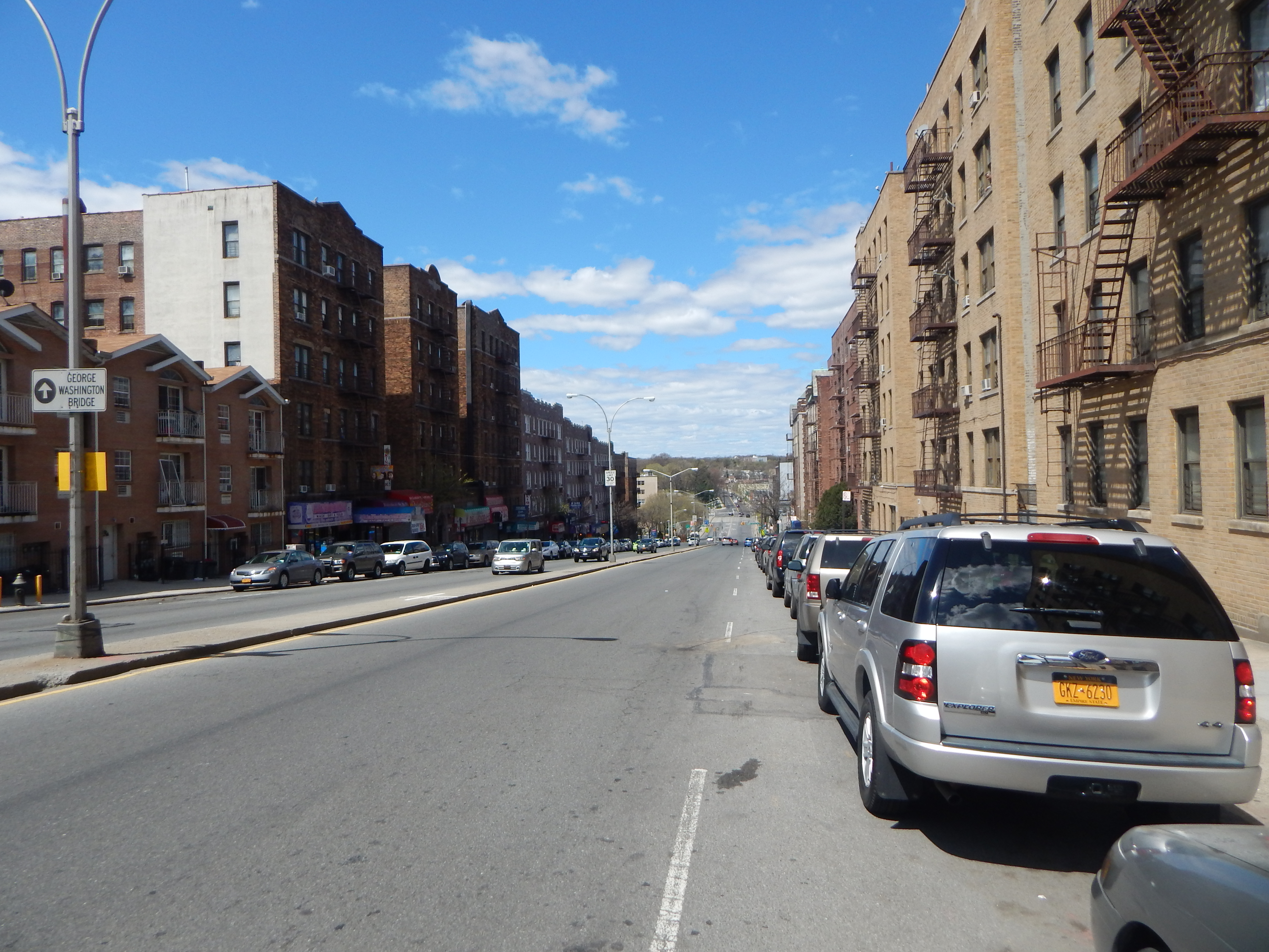 East 233rd Street in the Bronx, New York, just west of the intersection with White Plains Road.